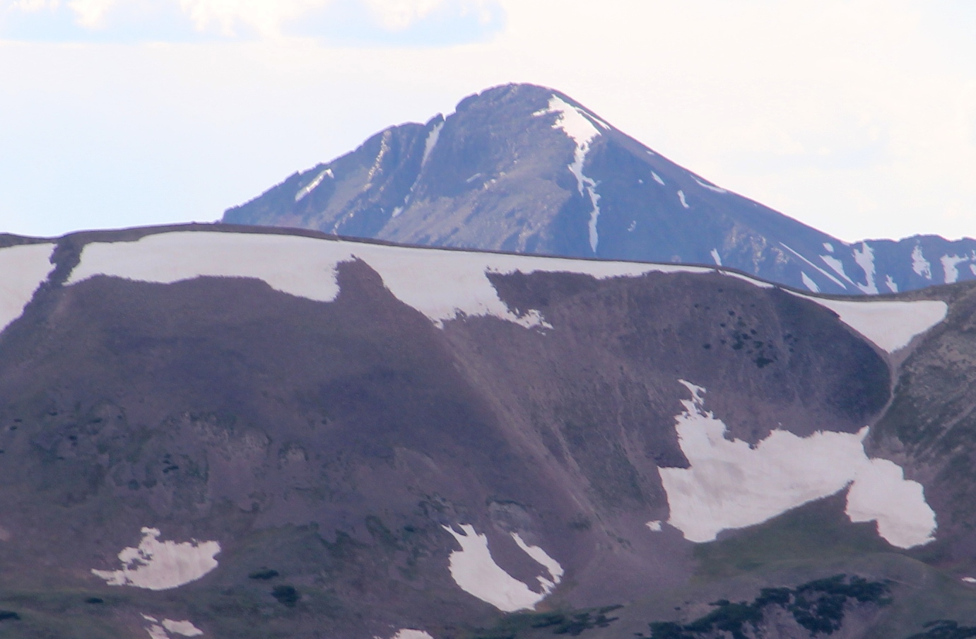 Mount Richthofen viewed from Tundra World Nature Trail